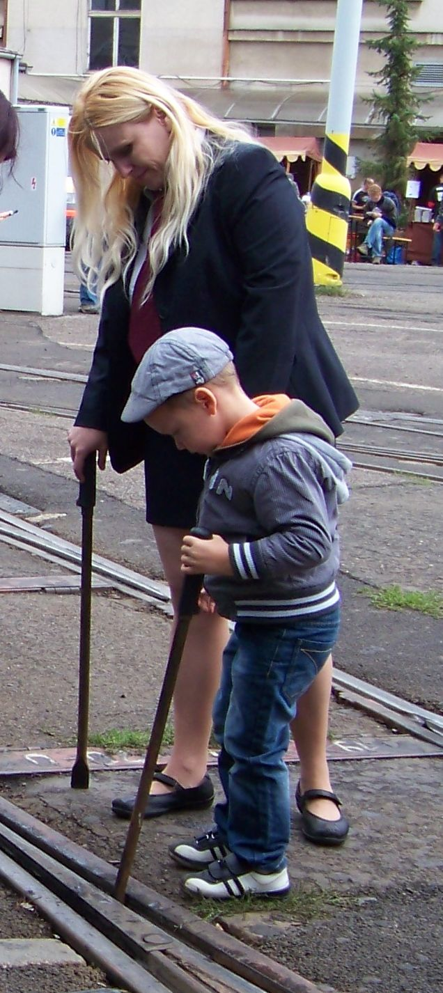 Prague-Strašnice, Czech Republic. Strašnice tram depot, open doors day.